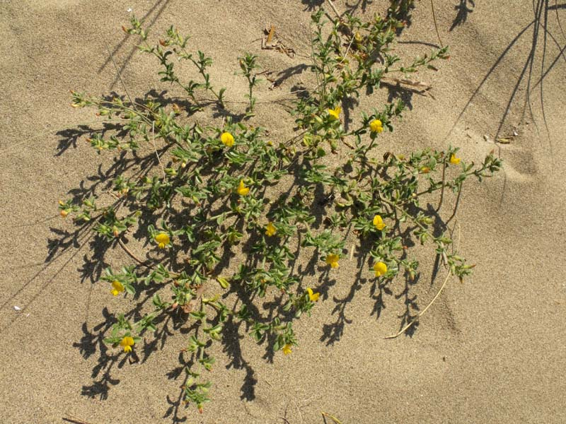 Ononis variegata. Photographed in Castel Fusano coastal dune system (Roma province, Latium, central Italy). Photo by Massimiliano Marcelli